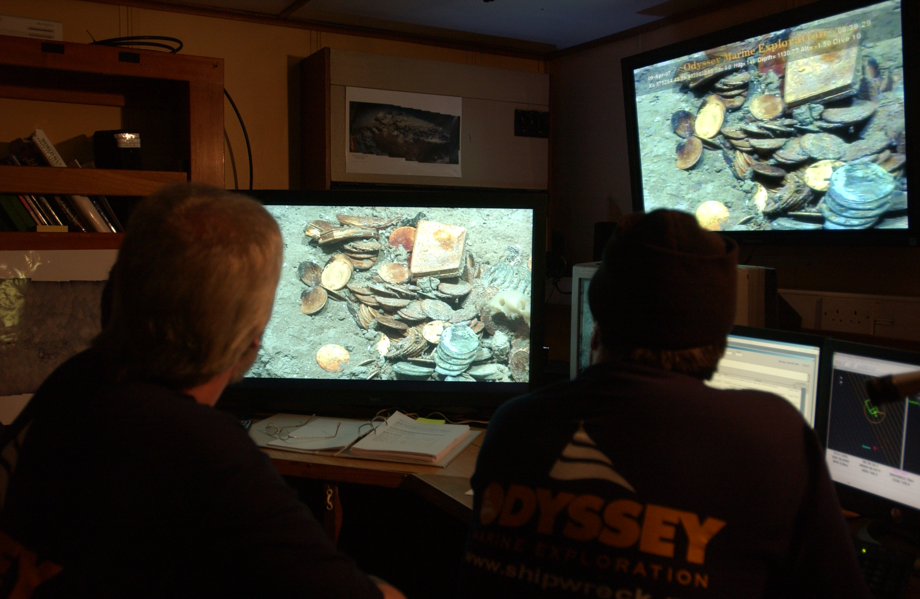 Greg Stemm and a project manager exploring a shipwreck site